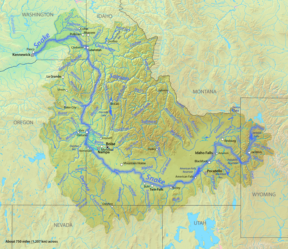 Map of the Snake River watershed in northwestern USA (improvement over Snake River map.jpg)